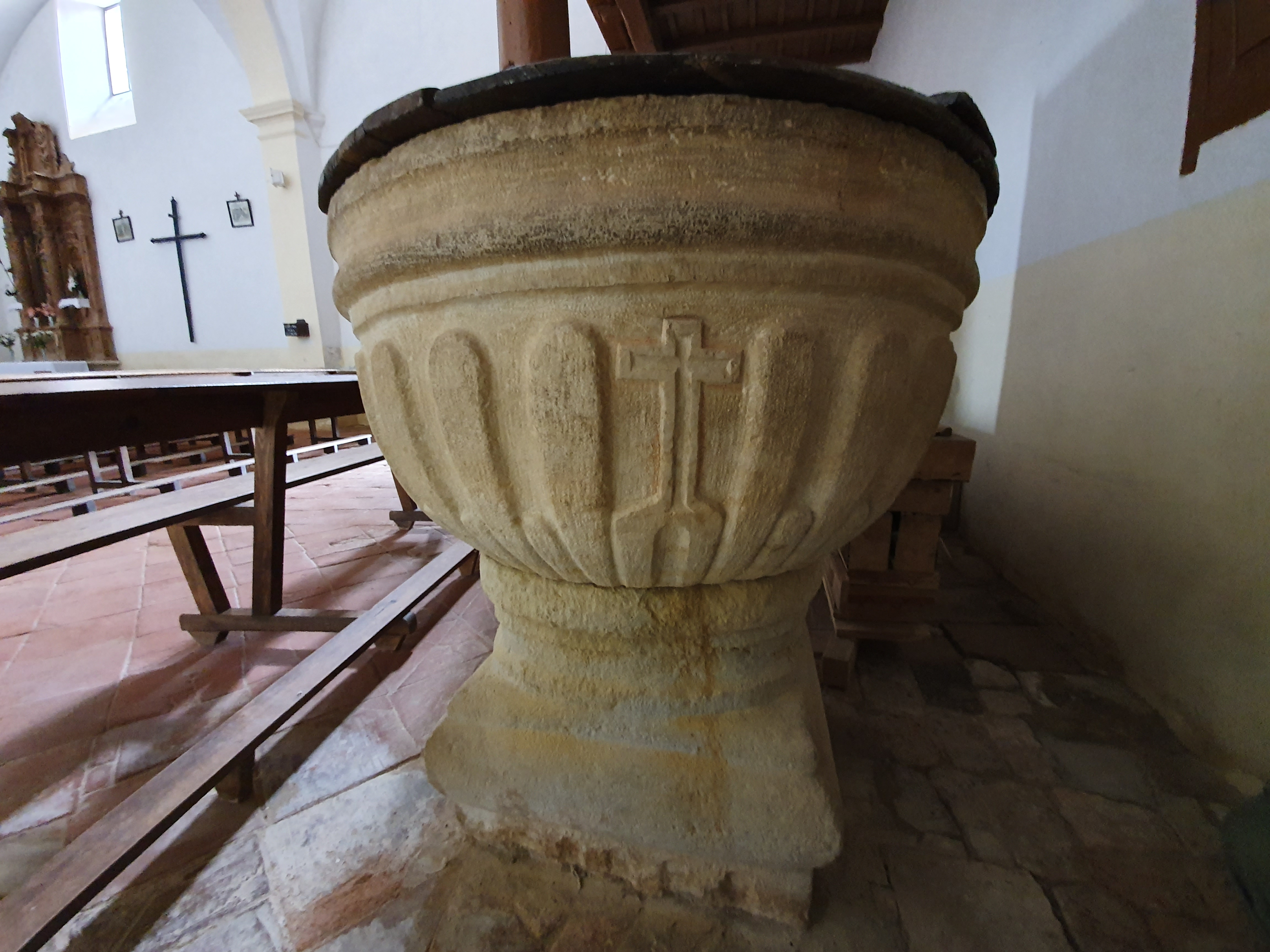 Baptismal font in church of La Asunción in Villamelendro de Valdavia (Palencia, Castile and León). Segmented baptismal font with a beautiful relief of a cross pattée in one of its sides. Dating from the 17TH-18TH century.